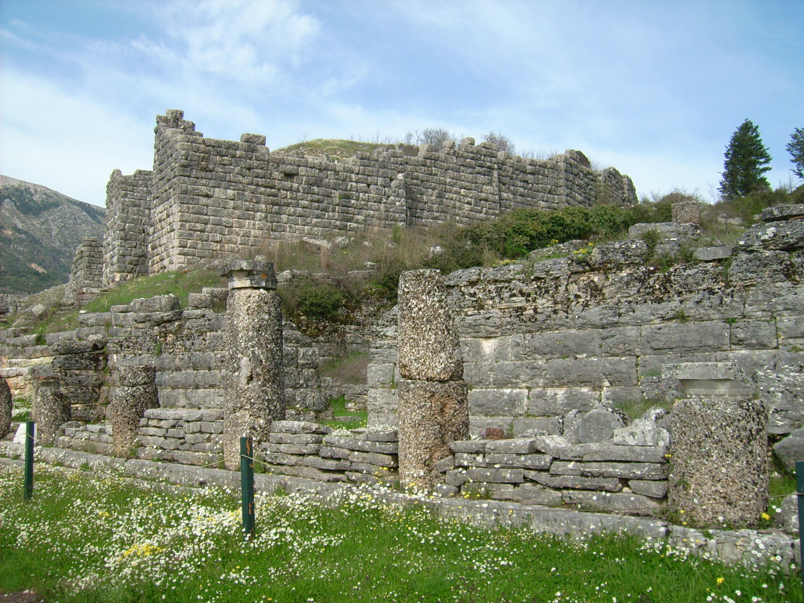 Oracle of Zeus at Dodona - exact discription follows nearby